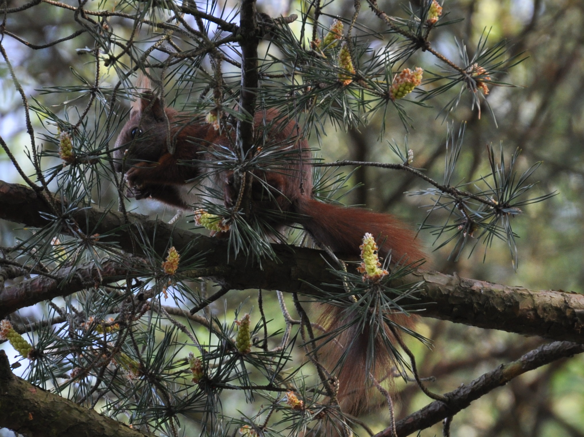 Red Squirrel in Bahrenfeld, Hamburg.